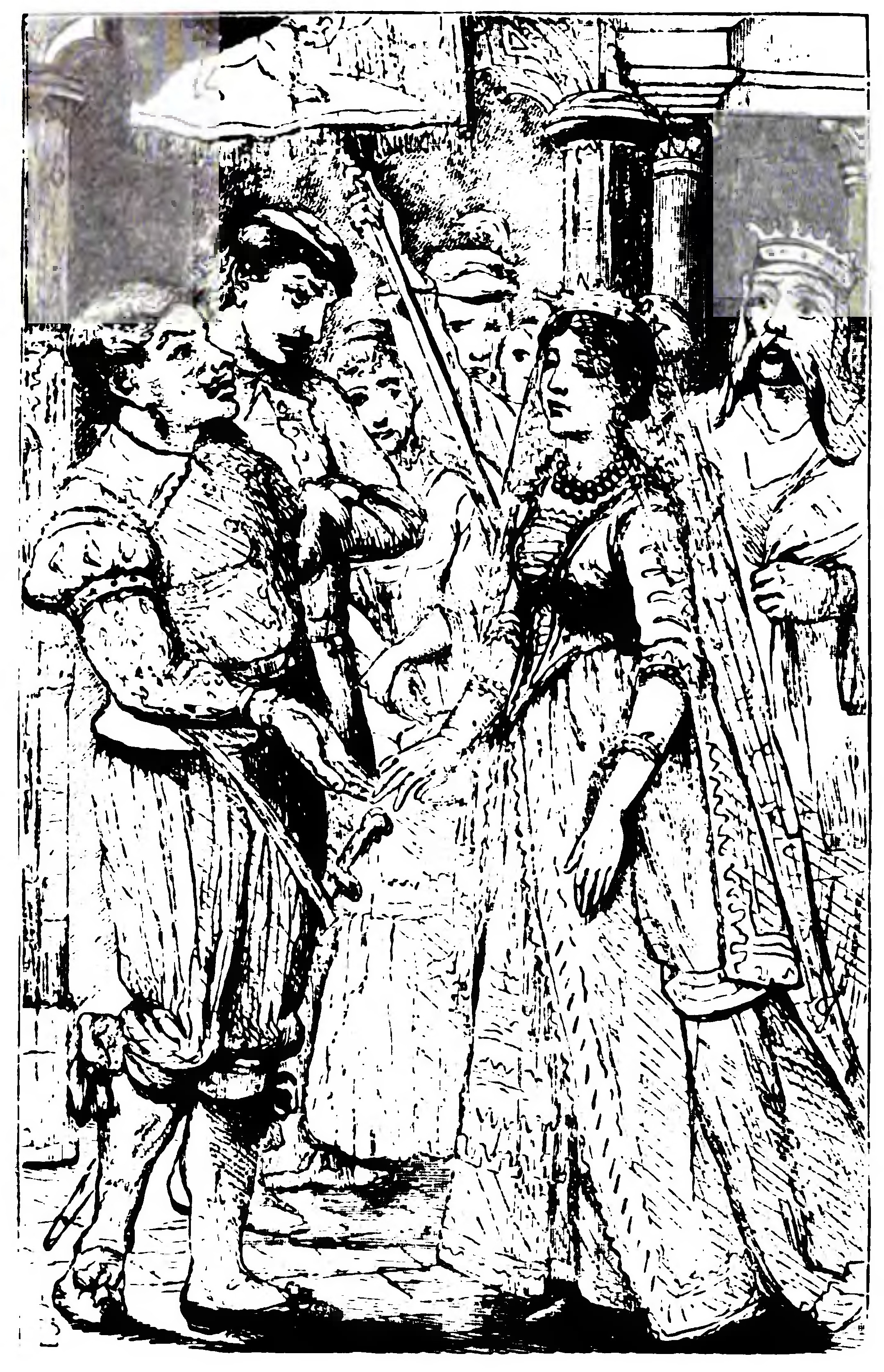 Book digitized by Google from the library of Harvard University and uploaded to the Internet Archive by user tpb.